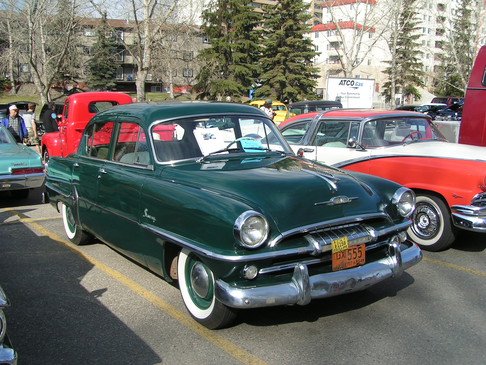 1954 Plymouth Savoy